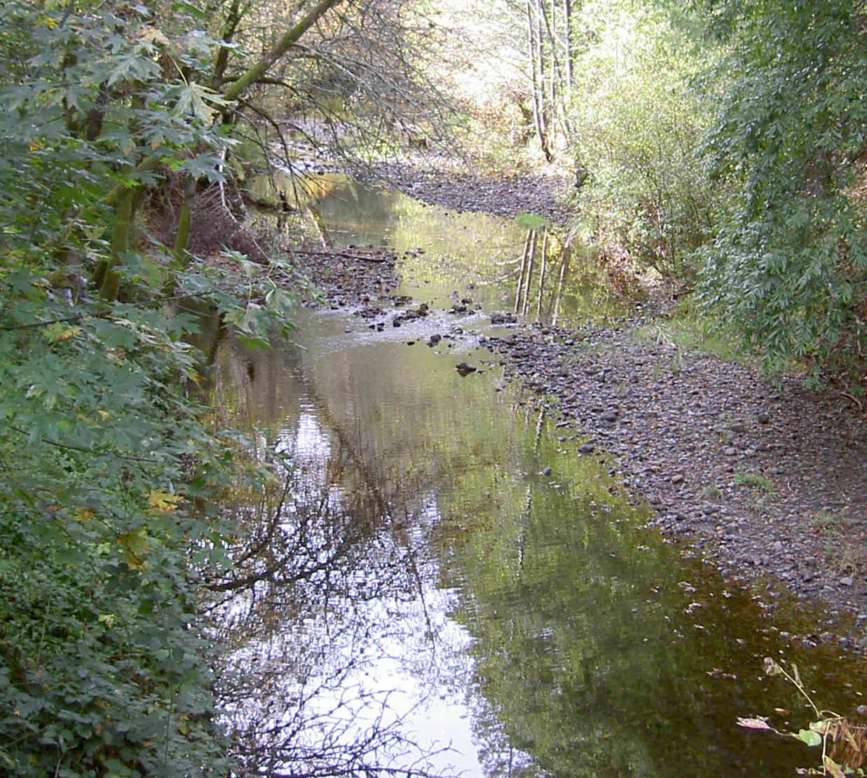 Dutch Bill Creek near Monte Rio, California, looking upstream from the Main Street bridge near Tyrone Road